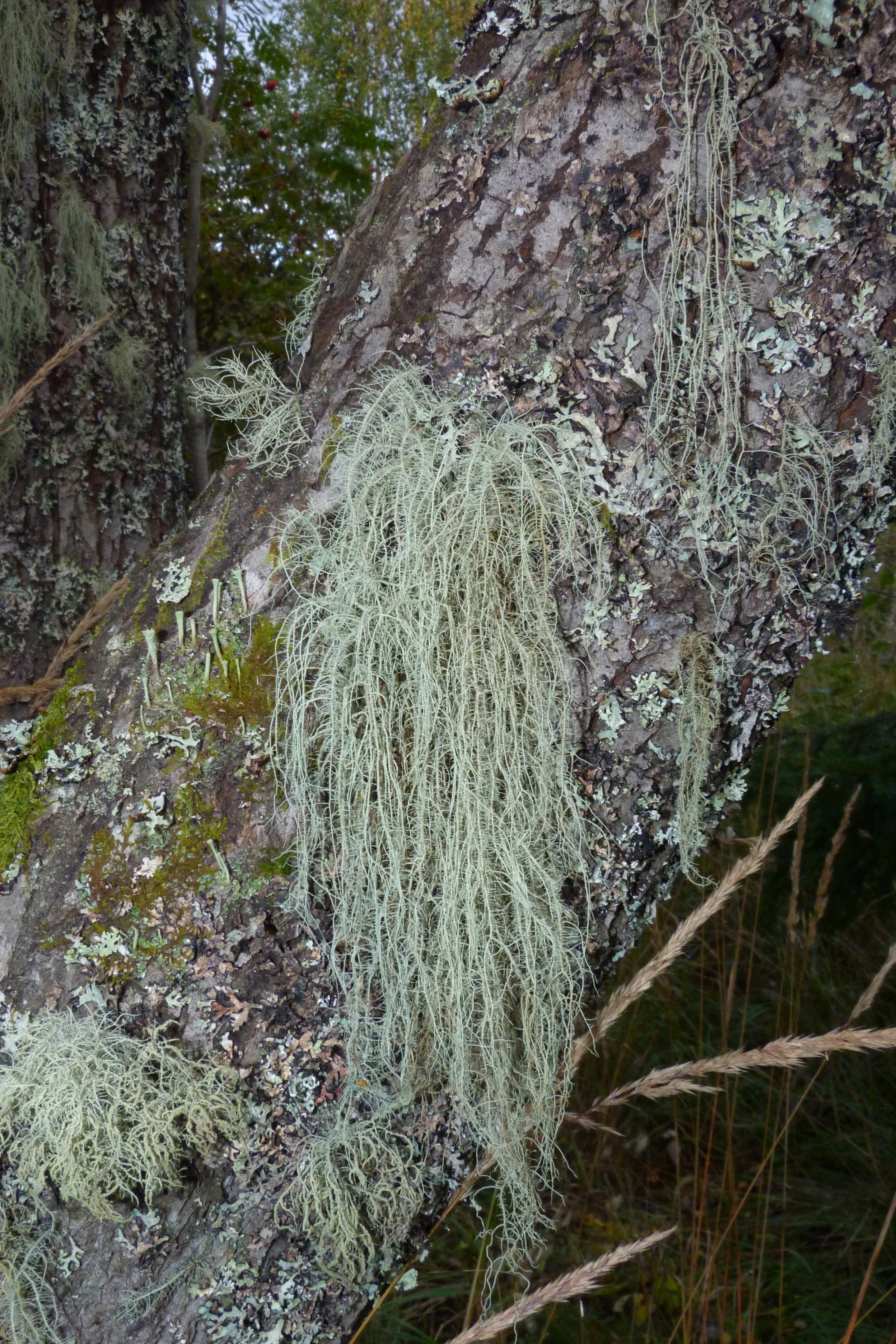 Usnea dasypoga (Ach.) Nyl., Lillehammer, Norway, 20 September 2012